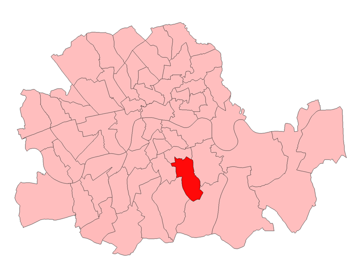 A map of Peckham constituency within the London County Council area, as it existed from 1918 to 1949.